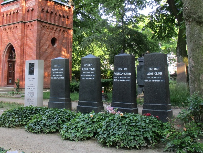 Grave Family of Brothers Grimm an new Memoriam-Gravestone for Augutse Grimm June 2016